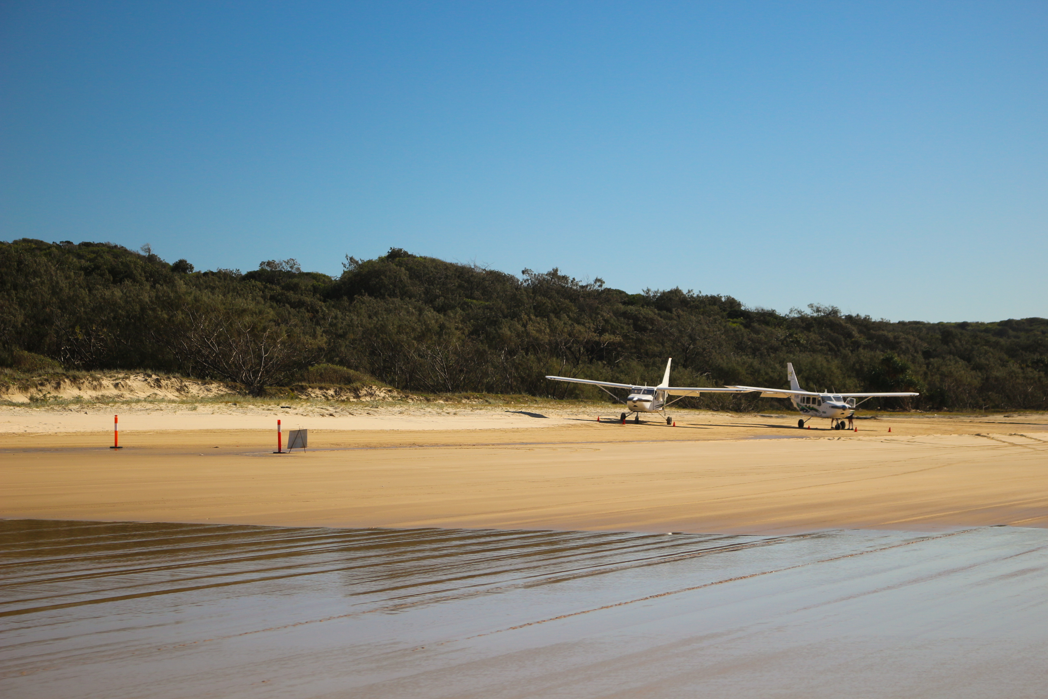 Australia, Queensland, Fraser Island, planes